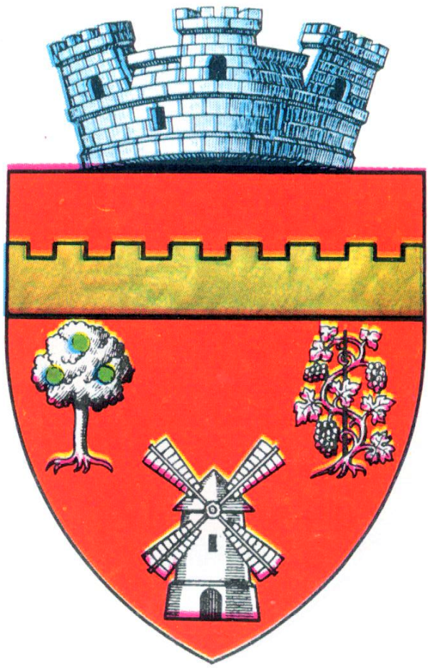 Interwar coat of arms of Bolhrad, Ismail County, Kingdom of Romania.